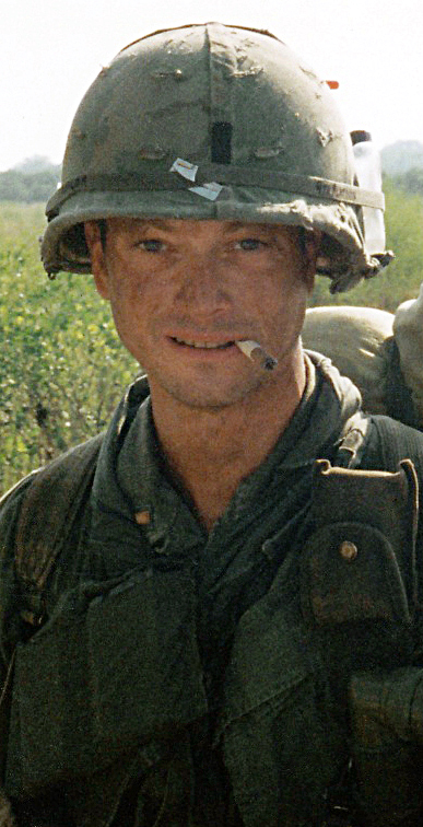 Gary Sinise as the character "Dan Taylor" on the film set of Forrest Gump.